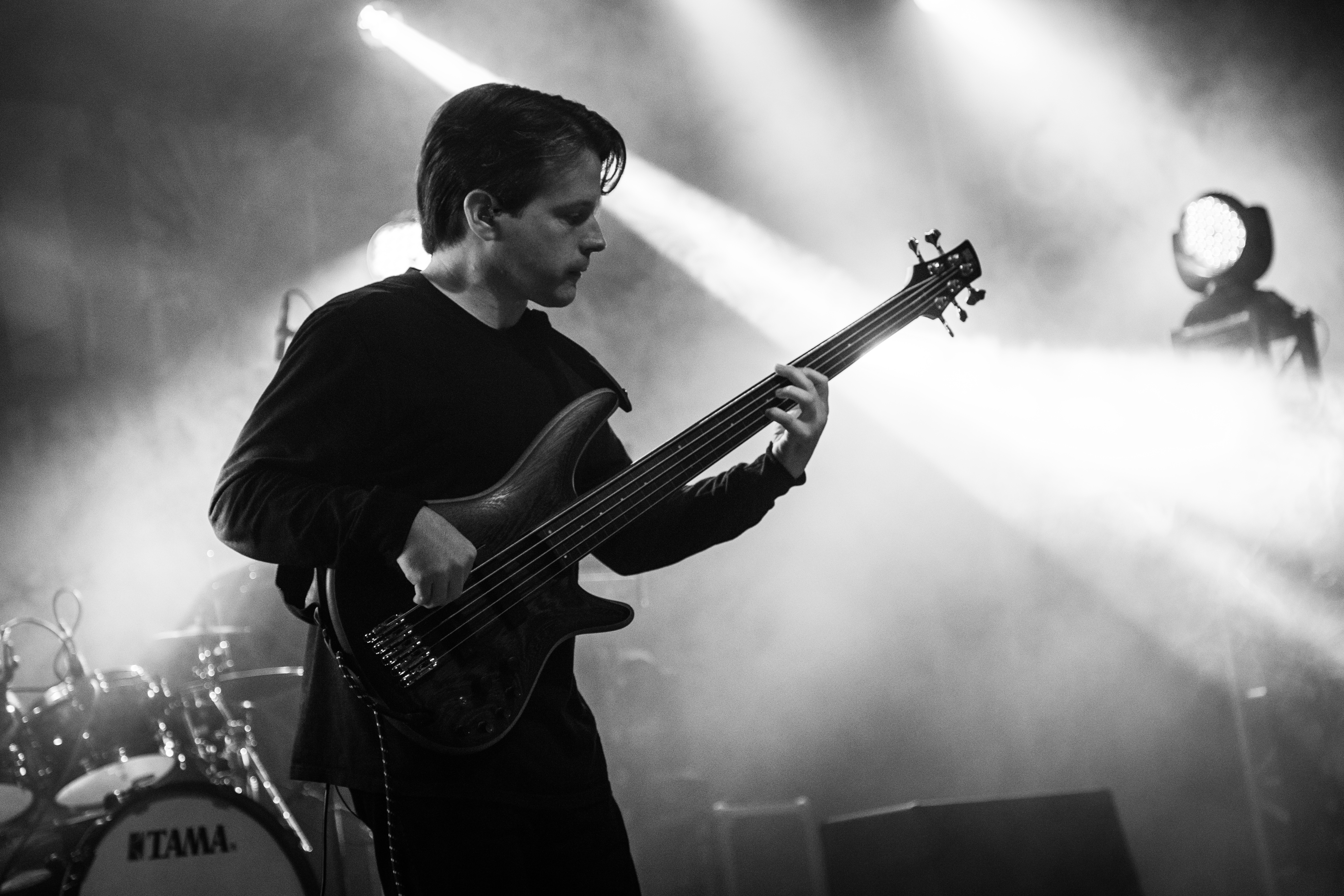 Cynic performing live at Euroblast Festival 2015, Cologne, Germany